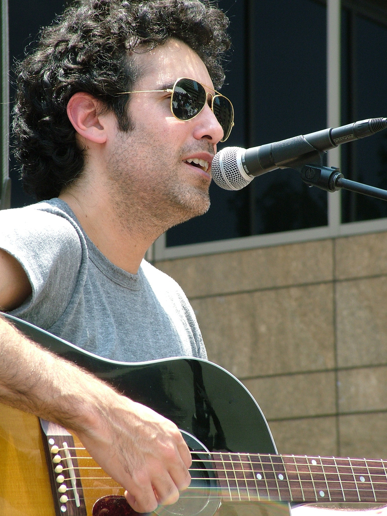 Joshua Radin on the Coca Cola Unplugged Stage